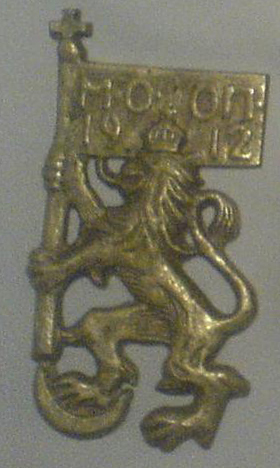 Macedonian-Adrianopolitan Volunteer Corps badge, from National milittary-history museum Sofia, Bulgaria